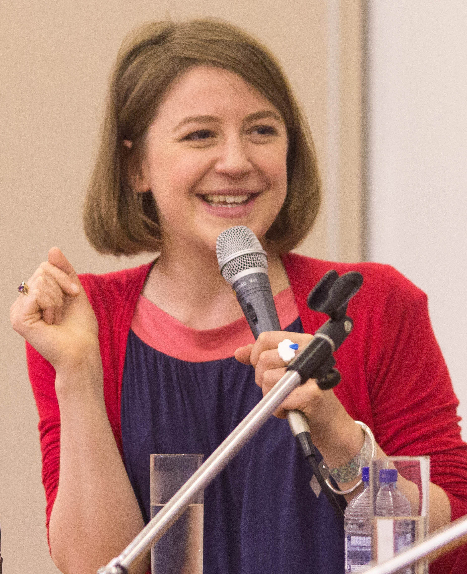 Game of Thrones: Gemma Whelan, Luke Barnes, Mark Stanley